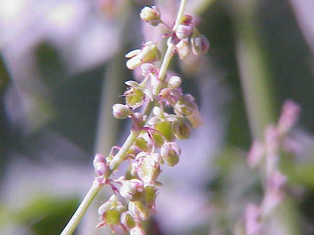 Species: Rumex scutatus Family: Polygonaceae Image No. 3